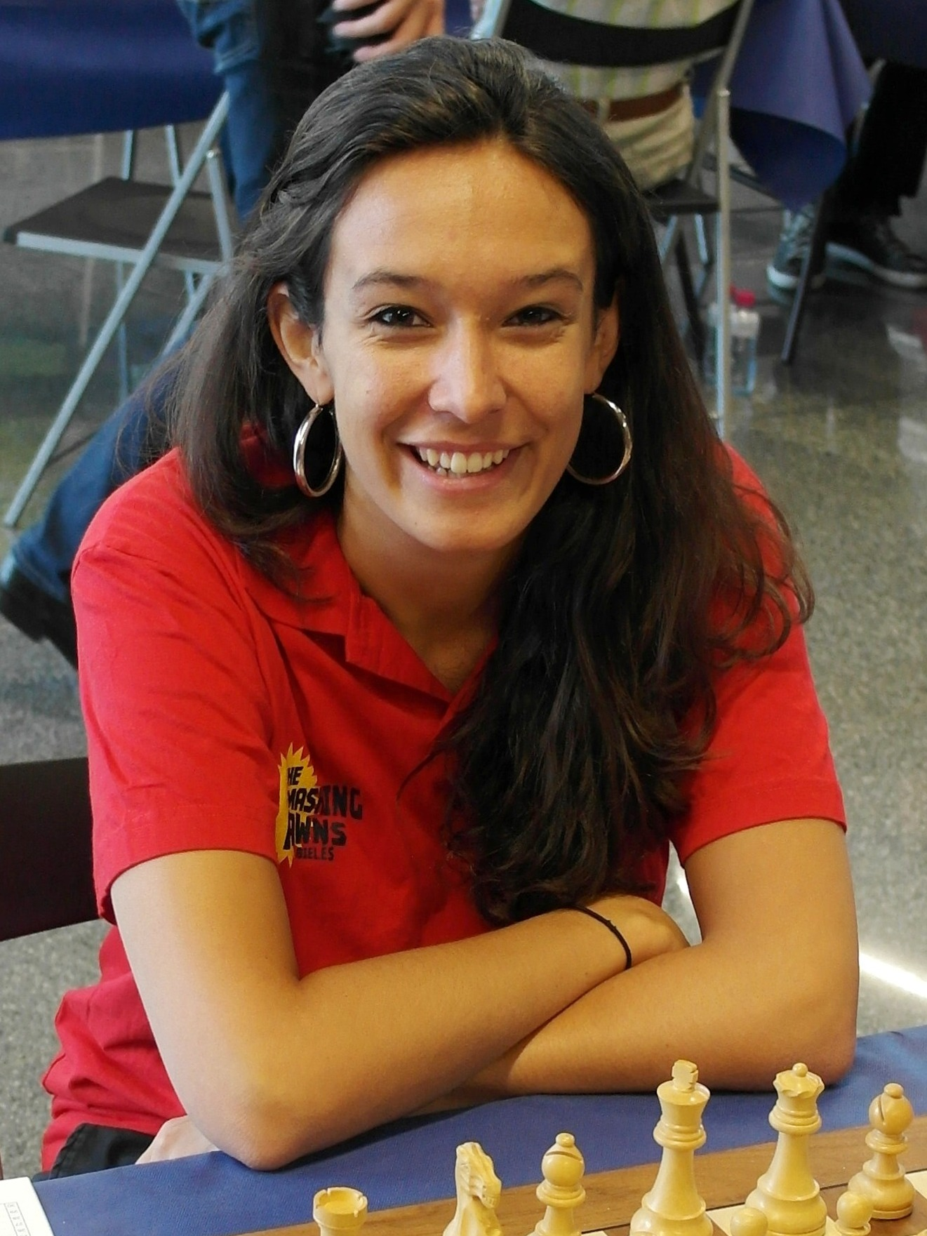 Fiona Steil-Anton, a chess Woman International Master